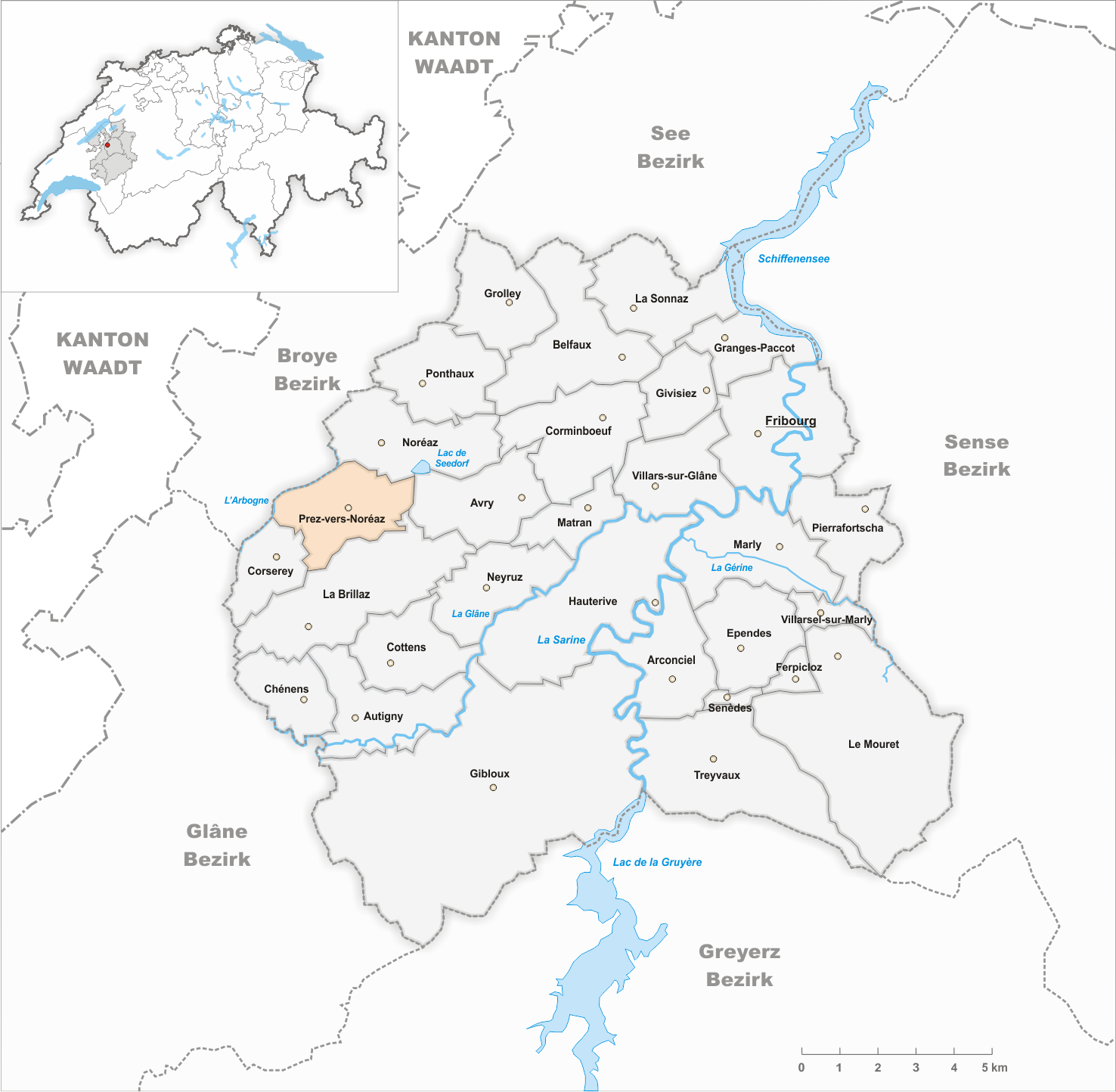 Municipality Prez-vers-Noréaz